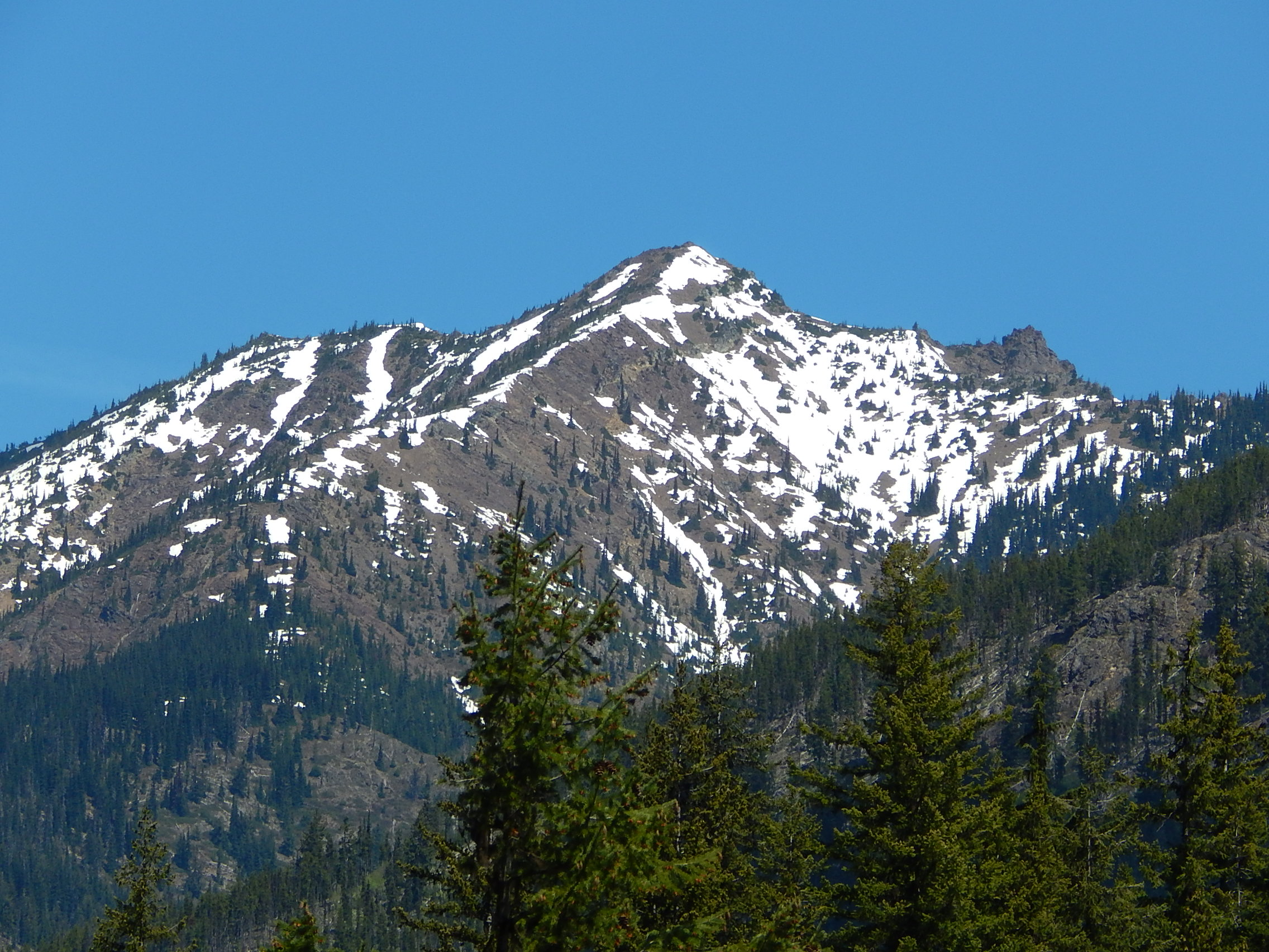 McKay Ridge 7020' in the North Cascades, WA